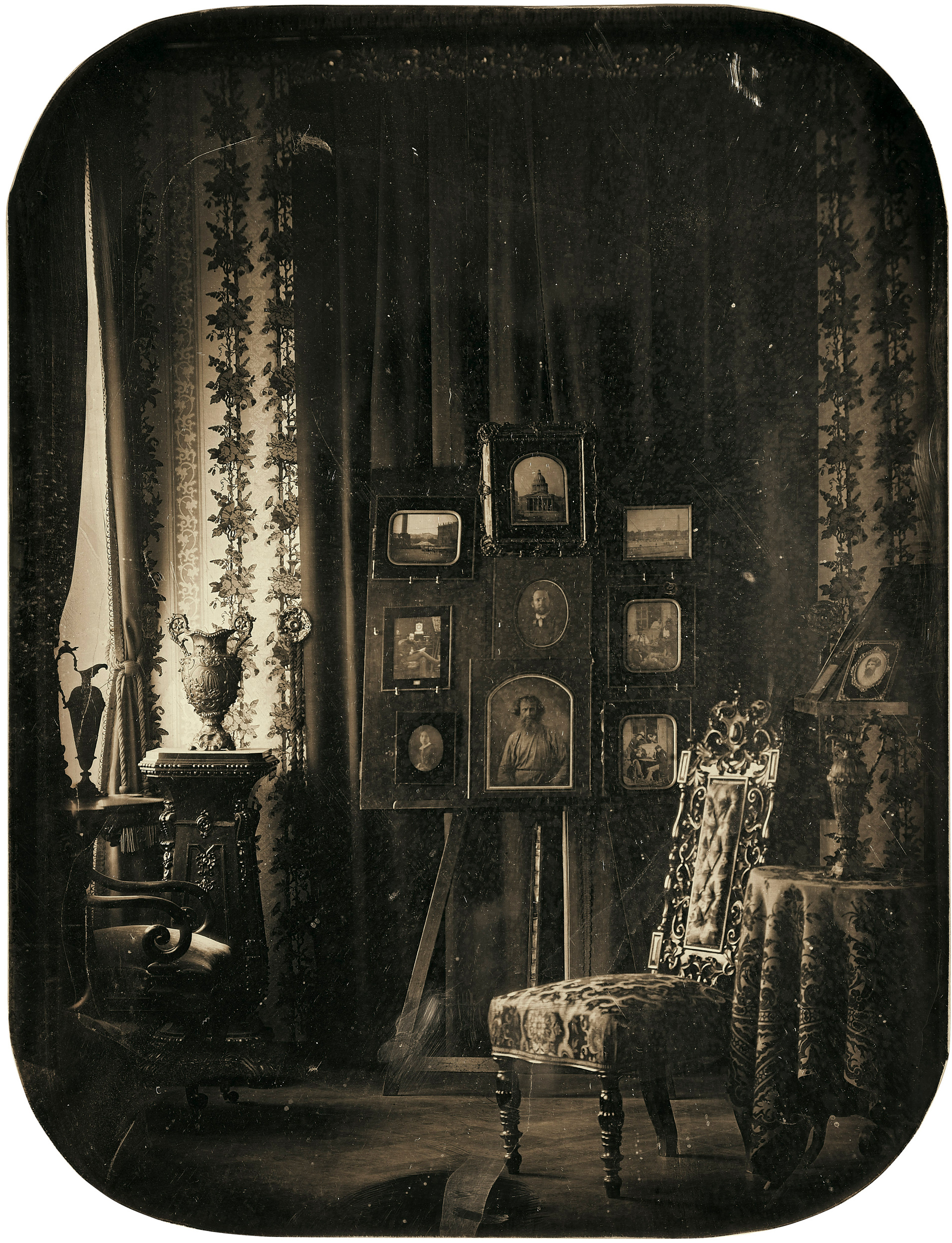 Baron Jean-Baptiste Louis Gros (French, 1793–1870) Salon of Baron Gros, 1850–57 Daguerreotype; 22.2 x 17.1 cm (8 3/4 x 6 3/4 in.) Private collection